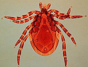 Image of Deer Tick Ixodes scapularis (formerly known as Ixodes dammini)